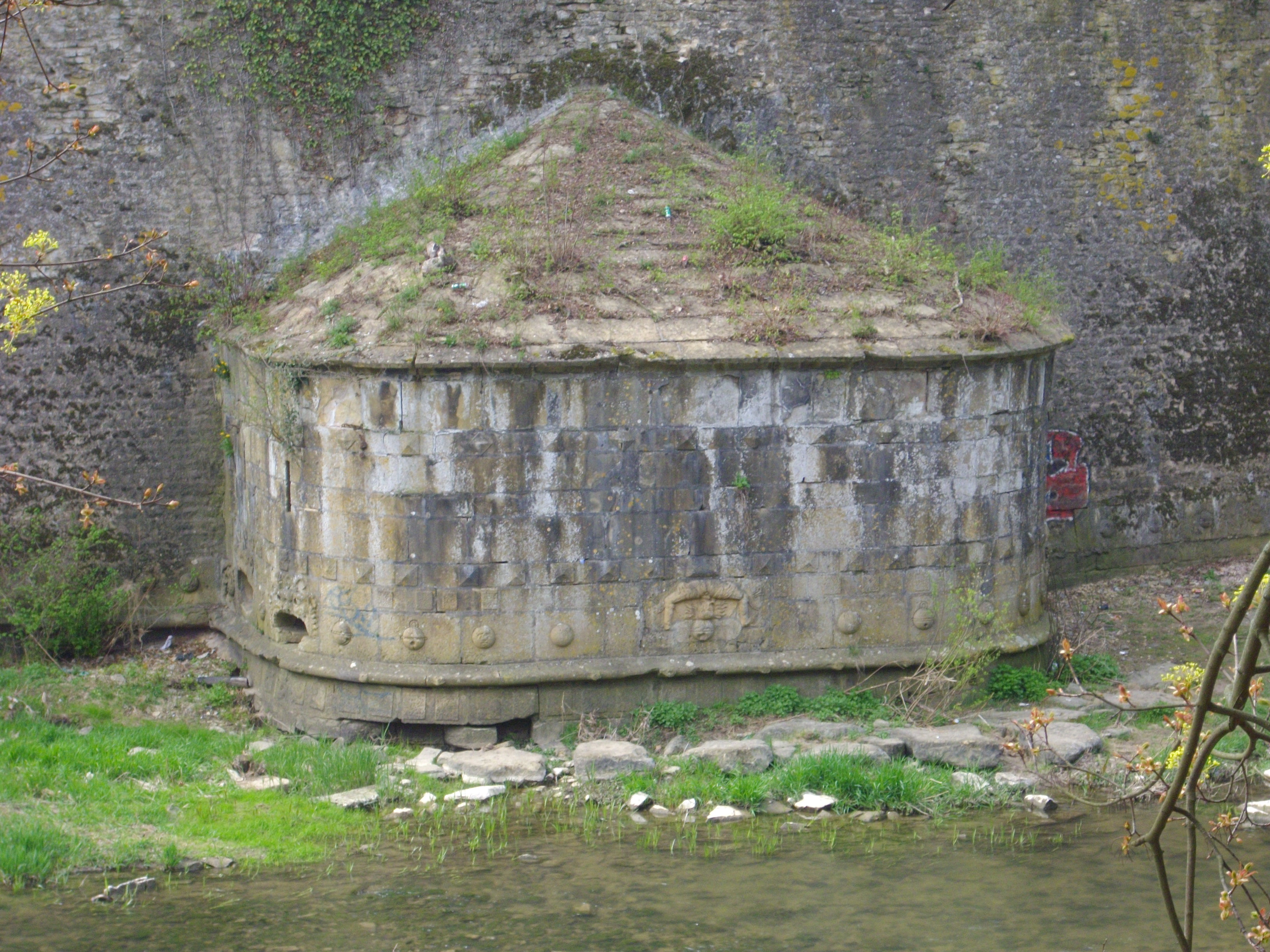 Dex tower, ramparts of Metz (Moselle, France)